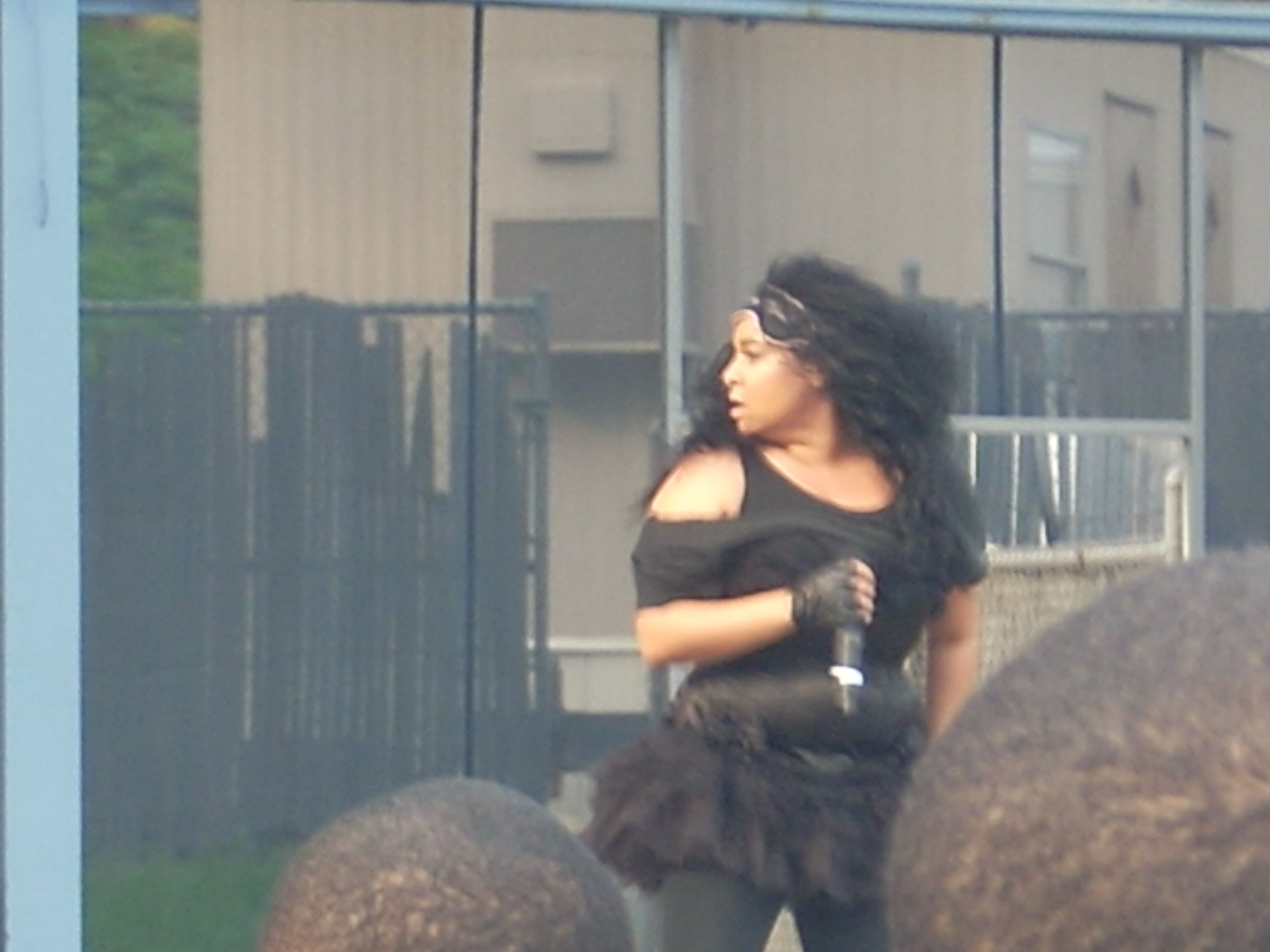 A concert with Raven-Symoné.